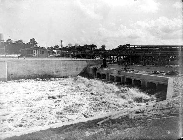 View of canal lock in the Everglades Drainage District circa 1915 ( The Everglades Drainage District was established in 1913 (Ch. 6456, 1913 Laws) for the purpose of draining and reclaiming lands located near the Everglades for agricultural and sanitary purposes. To carry out this mandate, a system of canals, drains, levees, dikes, dams, locks and reservoirs were constructed.)